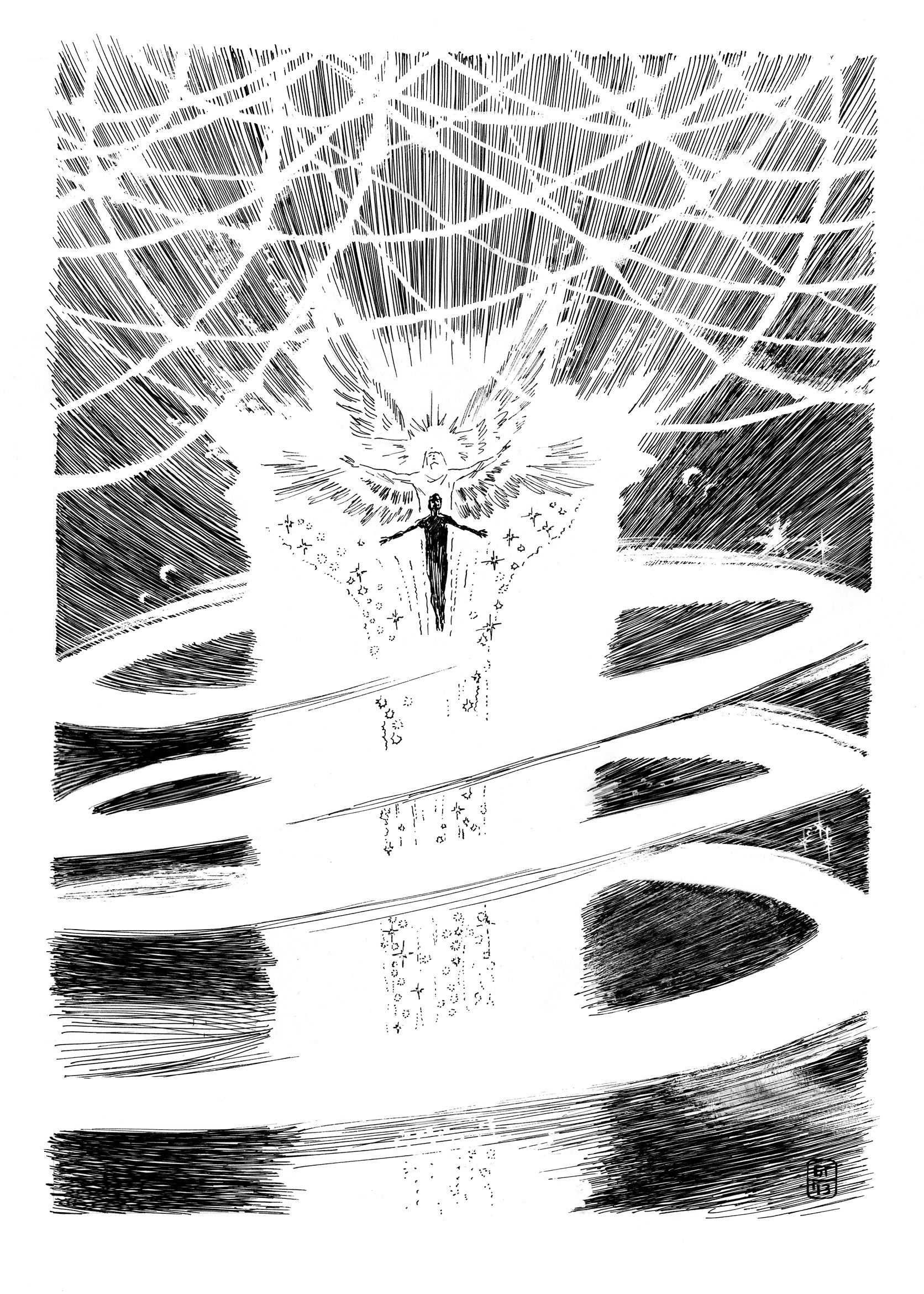 "Angel carries the poet", illustration made for serbian publisher Svet knjige